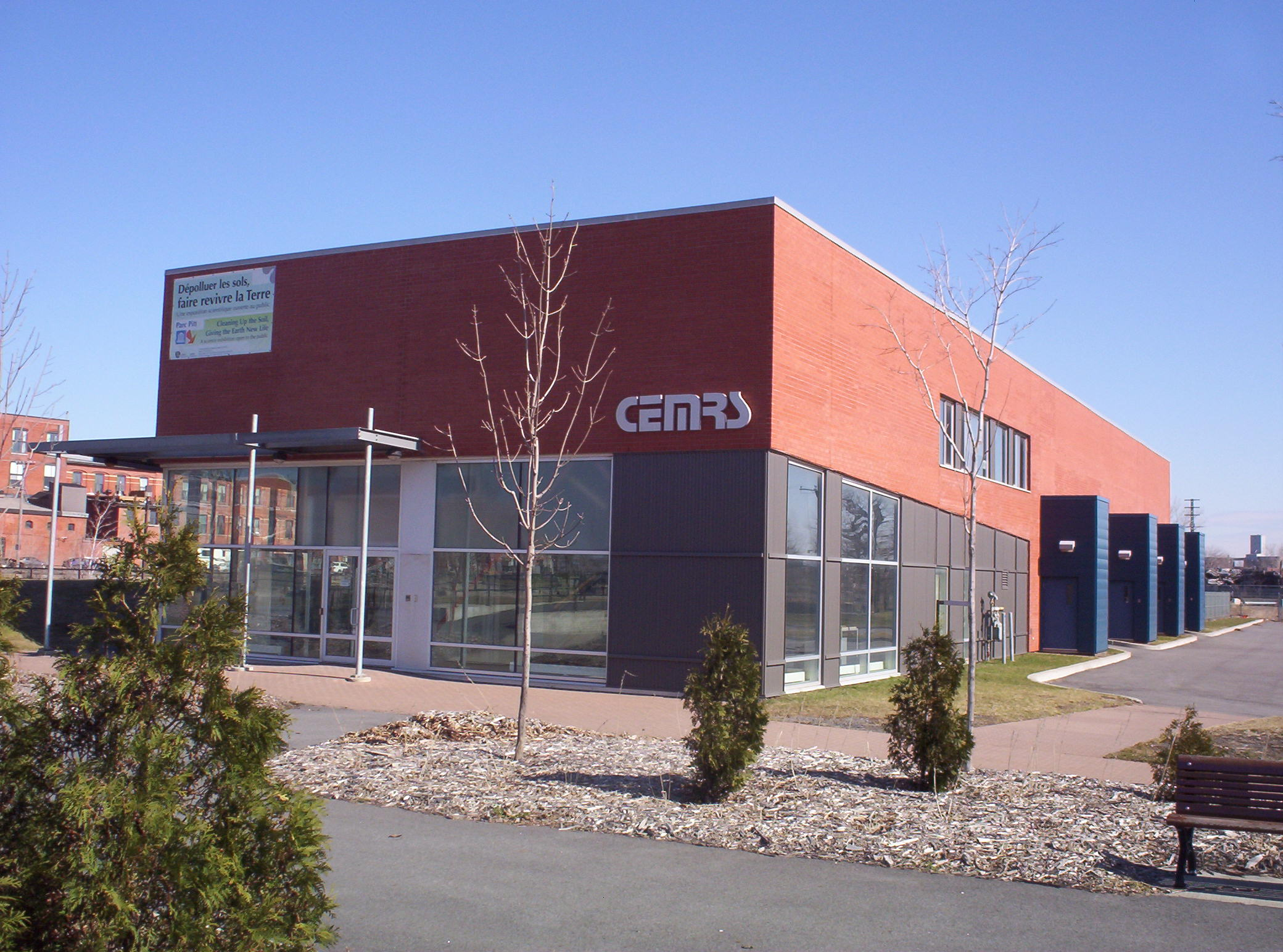 Summary: View on Centre d'excellence de Montréal en réhabilitation de sites building near Lachine Canal in Montréal, Quebec Author: Colocho Date: April 10th, 2006